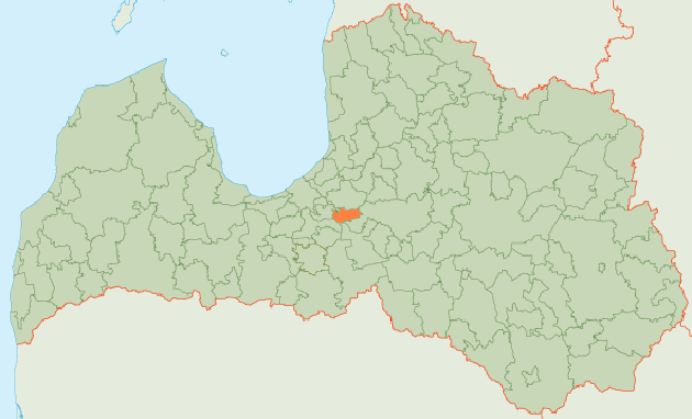 Map of Ikšķile